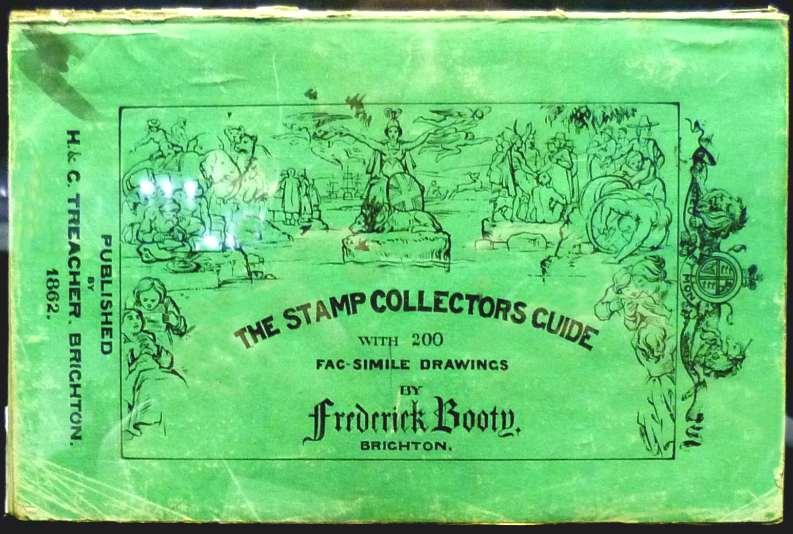 Frederick Booty's first illustrated stamp catalogue of 1862. Picture taken of the book under glass at the Royal Philatelic Society London 28 April 2011.